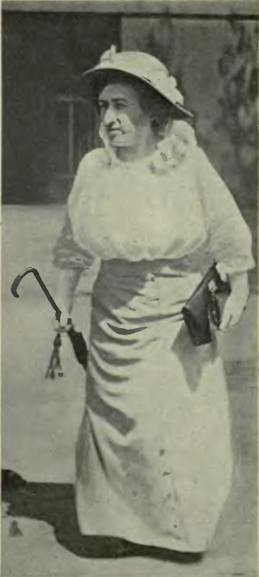 Rosa Luxemburg, socialist revolutionary leader.